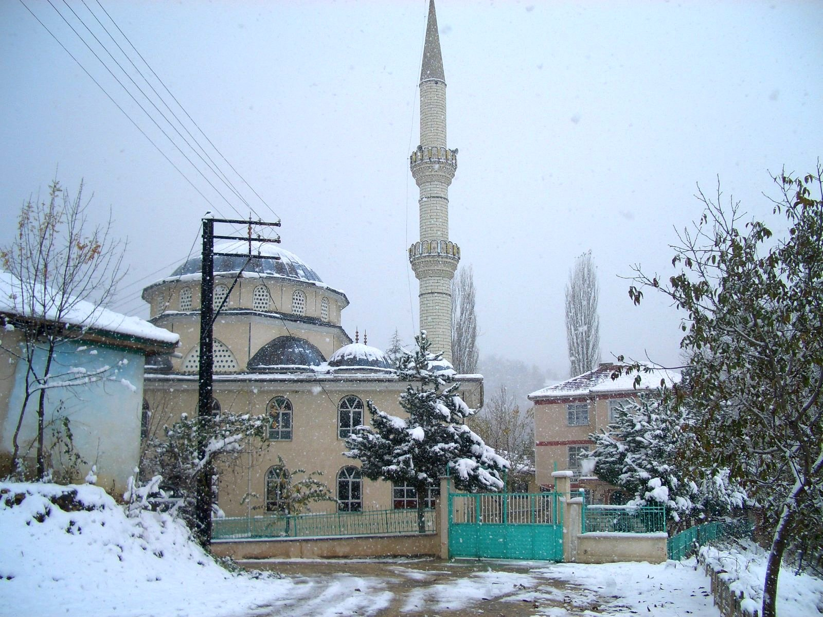 View of Hayriye mosque, Bursa-Inegöl